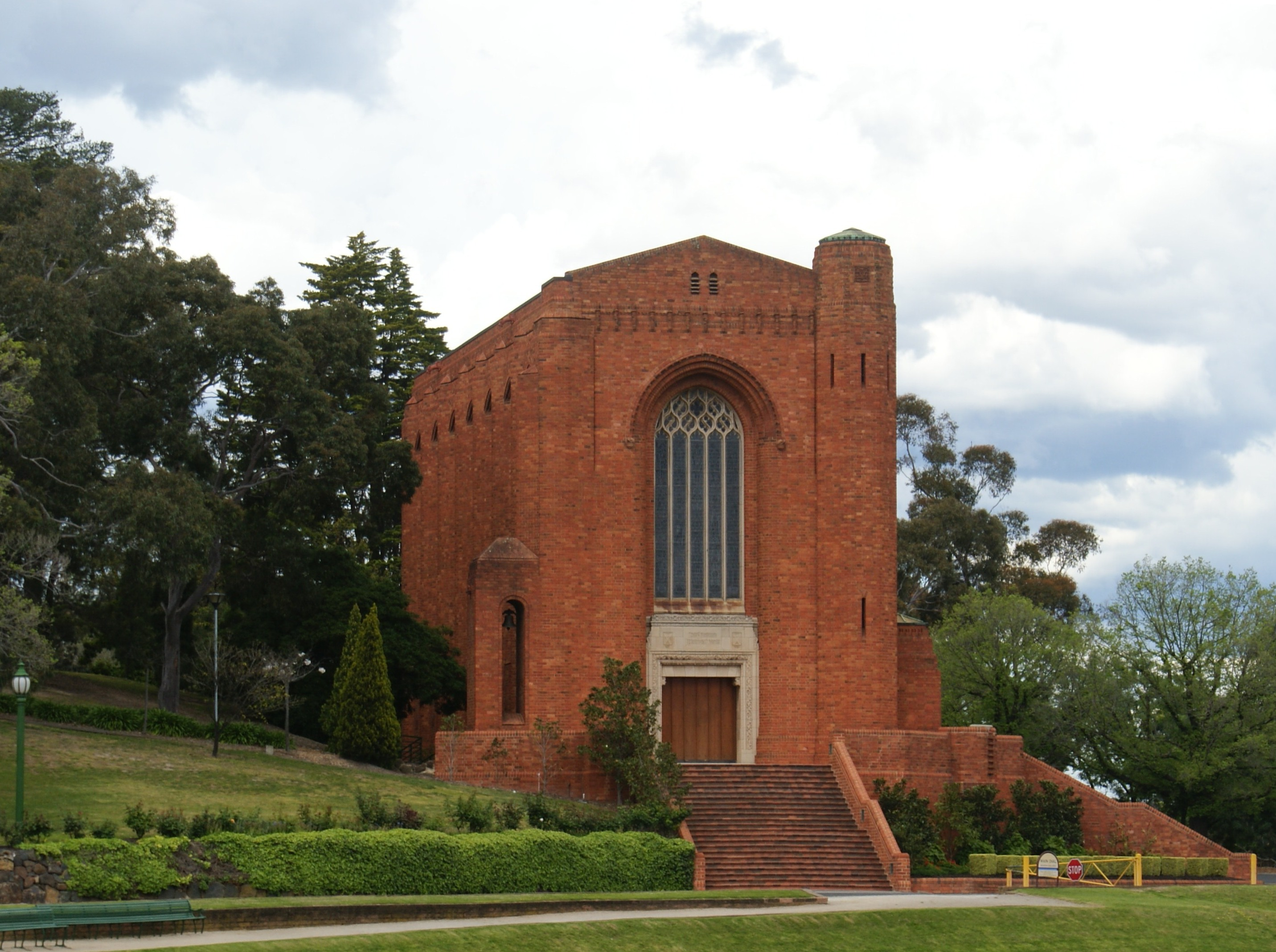 Littlejohn Memorial Chapel and The Hill at Scotch College, Melbourne